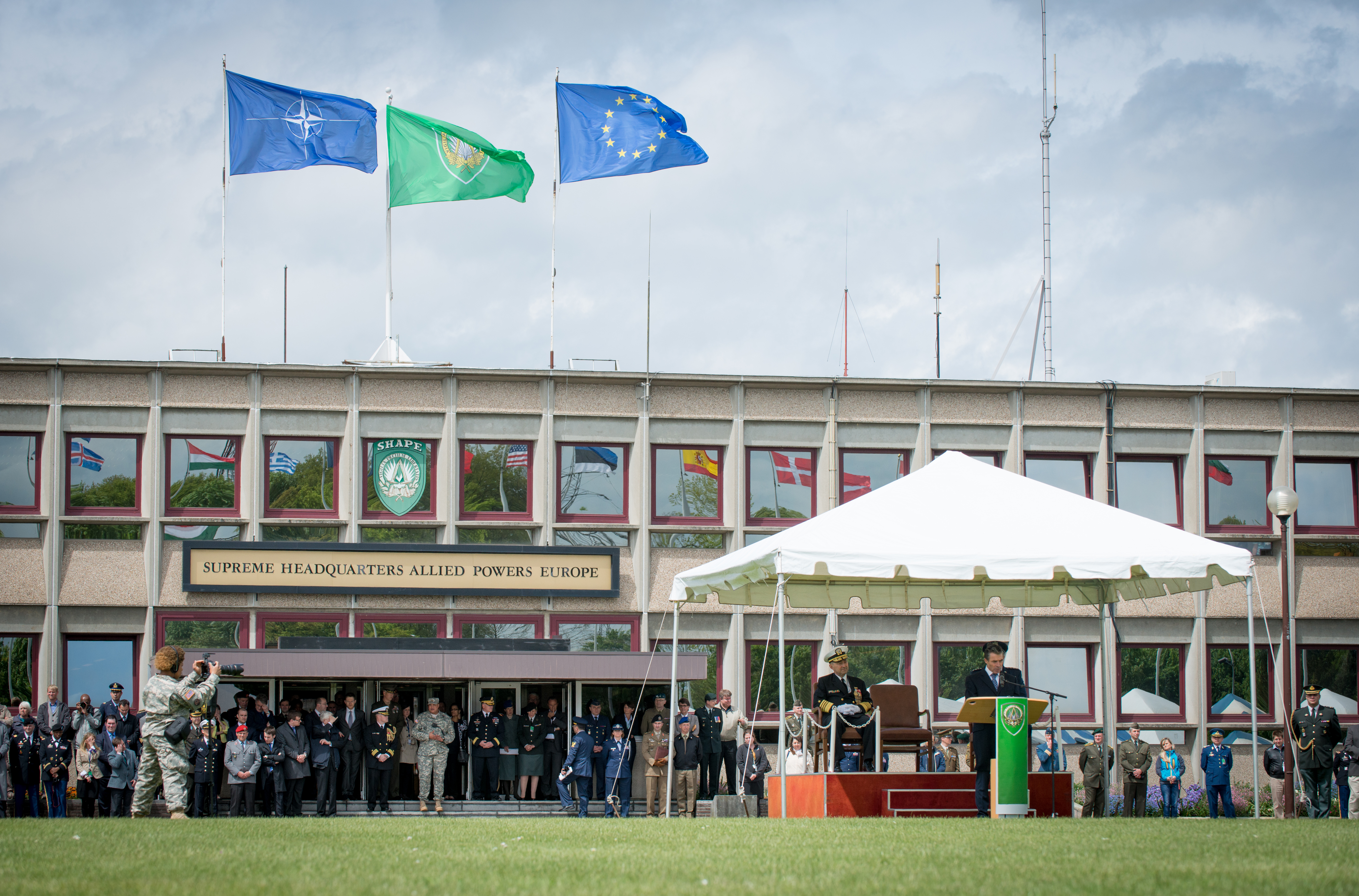 Gen. Philip Breedlove, U.S. Air Force, assumed command of Allied Command Operations from Adm. James Stavridis, U.S. Navy, at a change of command ceremony held at the Supreme Headquarters Allied Powers Europe May 13, 2013. Gen. Breedlove is the 17th American officer to hold this prestigious position of Supreme Allied Commander Europe. (NATO photo by Staff Sgt. Ian Houlding, GBR Army)